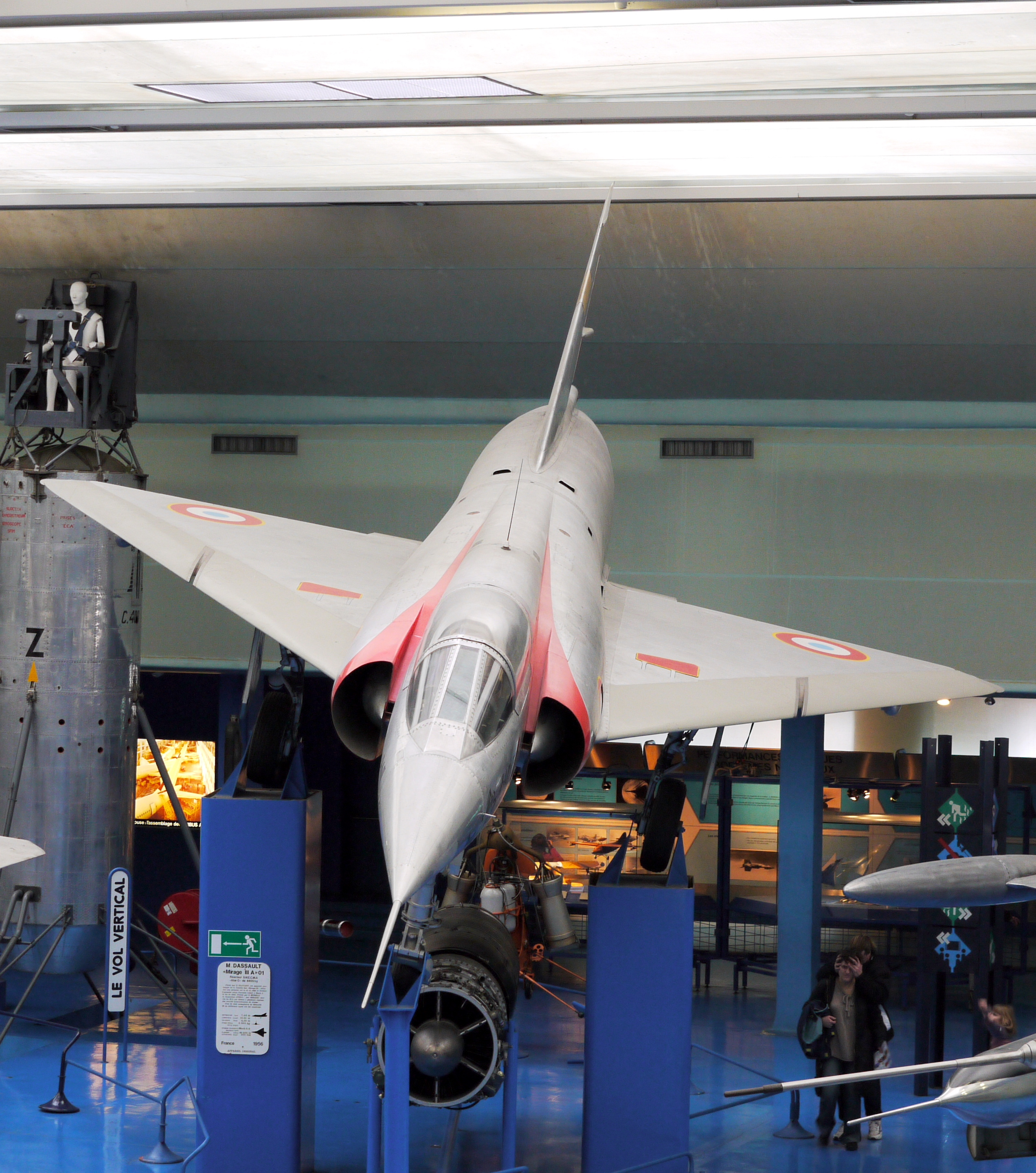 Fighter aircraft Mirage III A 01 (1961), Museum of Air and Space Paris, Le Bourget (France)